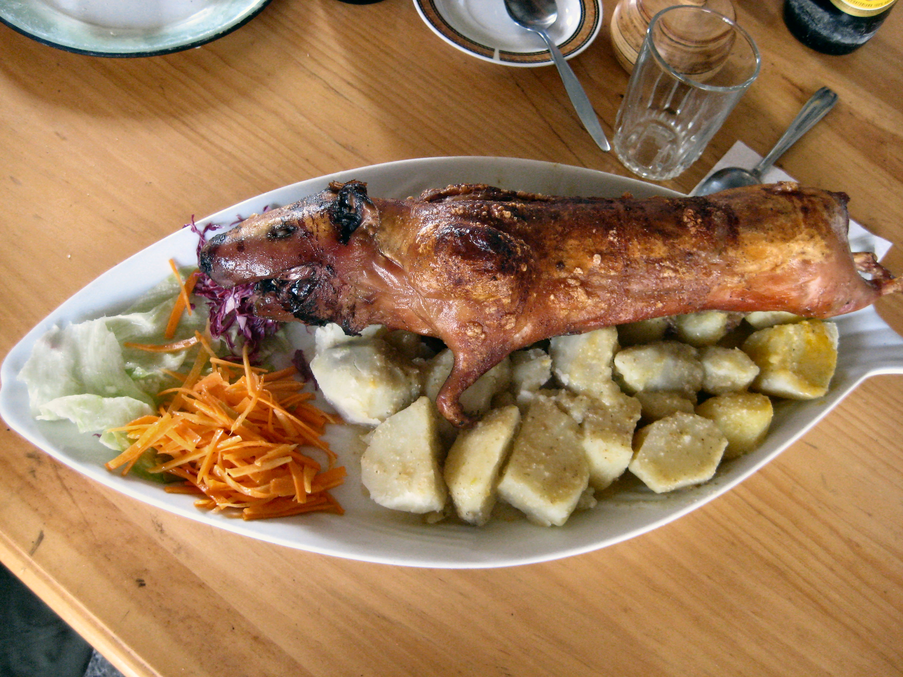 Cuy. or guinea pig, from the restaurant Fogon de los Abuelos in Matus, Ecuador, Ecuador.